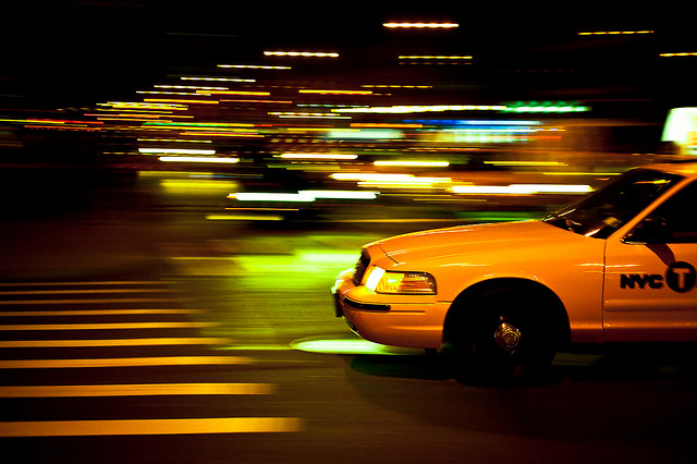 New York City, United States, 04-2009.